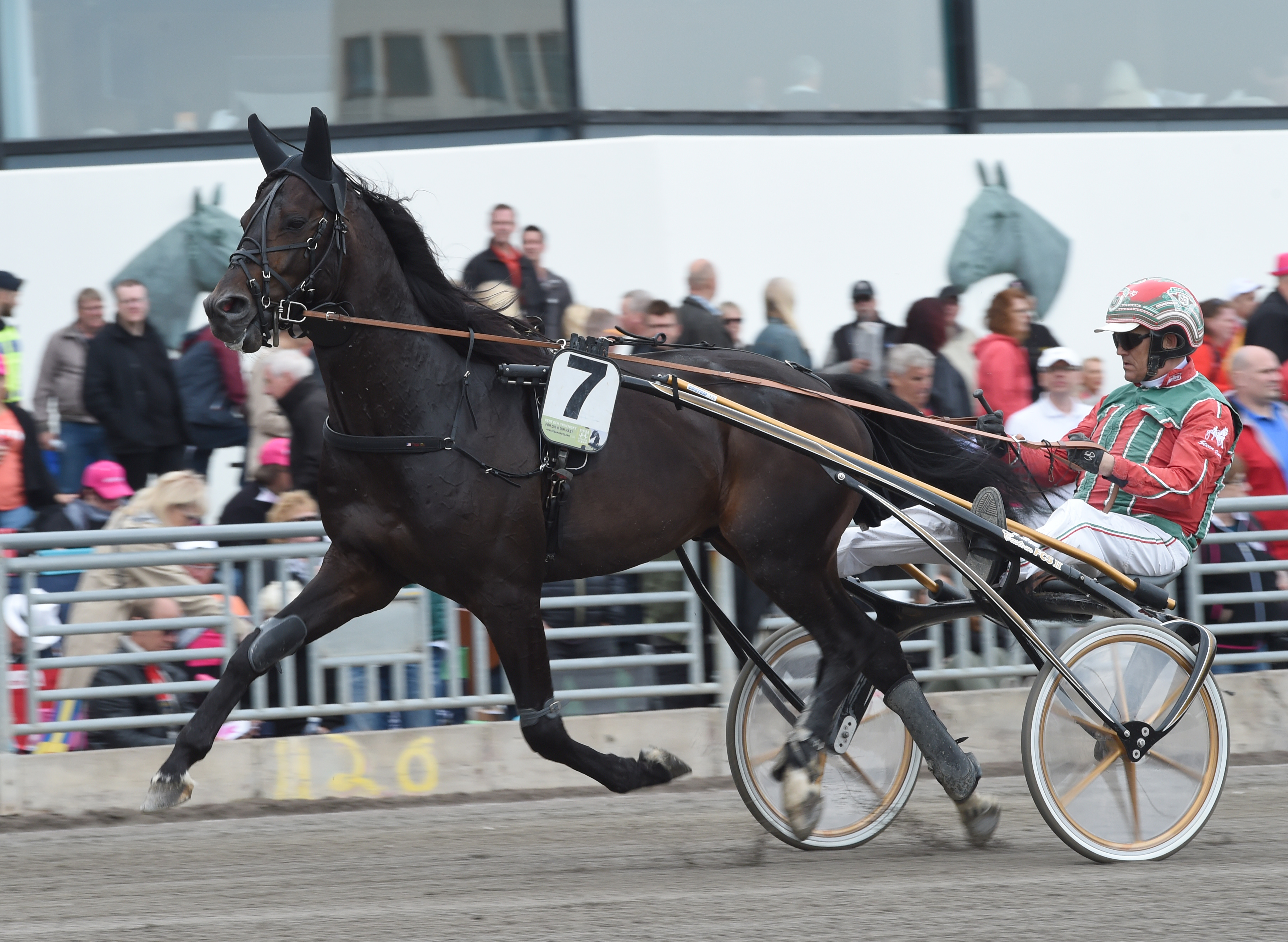 Tycoon Conway Hall & Steen Juul 2016.